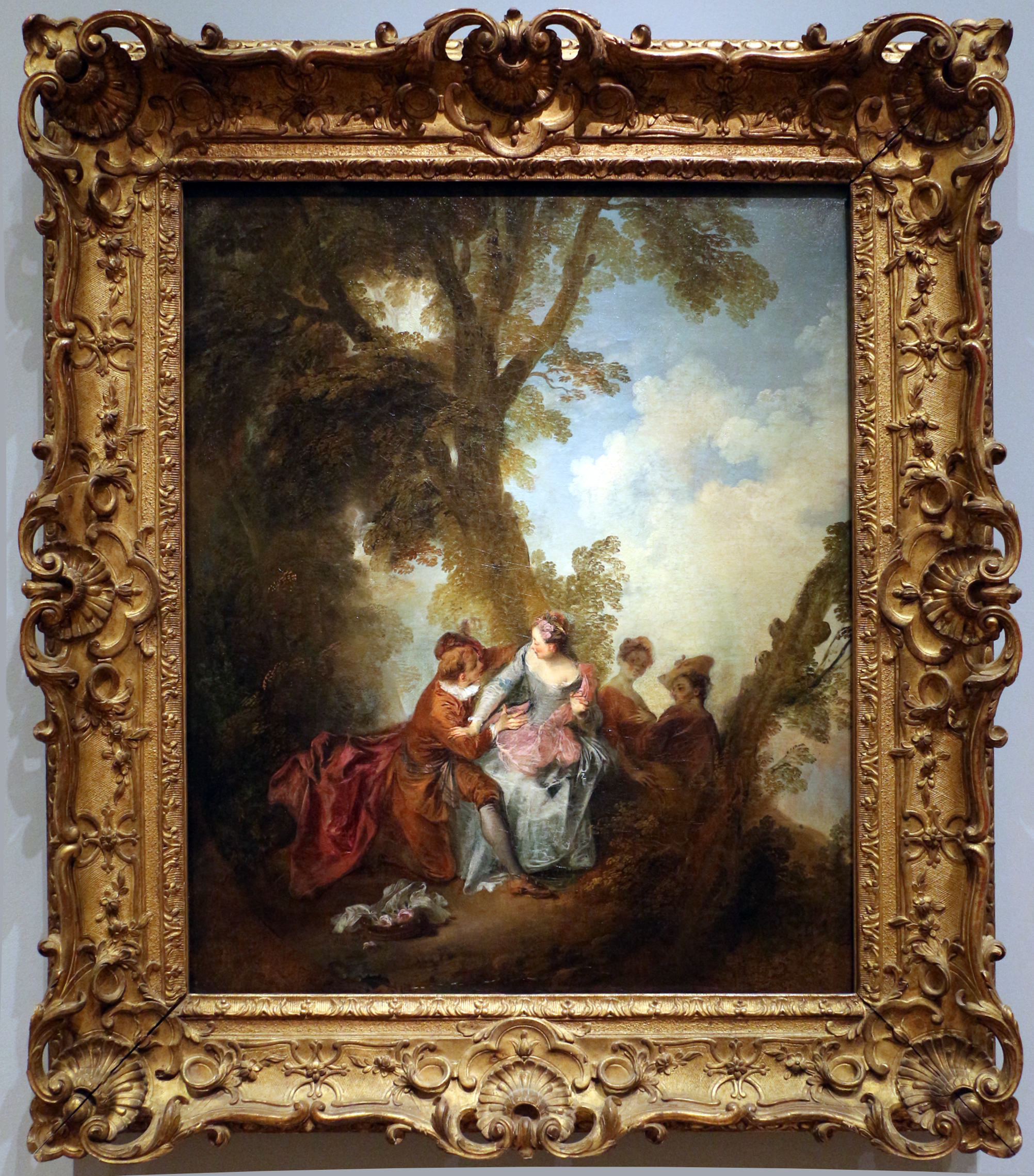 French paintings in the Cleveland Museum of Art